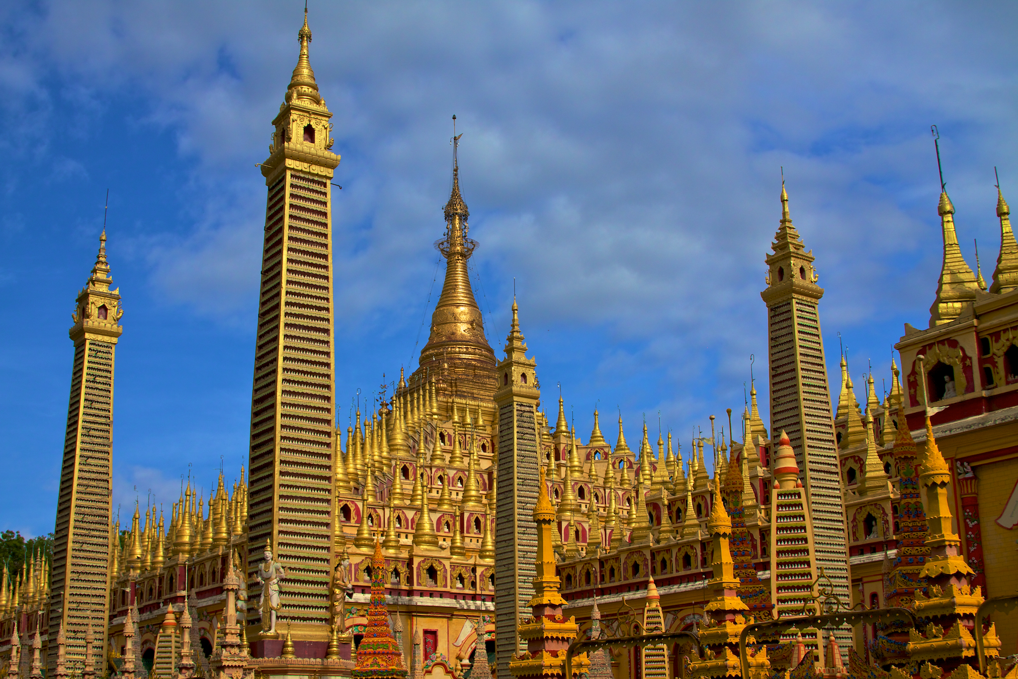 Built from 1939 to 1958, Thanboddhay Paya is a celebration of colour as much as a celebration of Buddha. Clad in tons of gold and painted retina-blinding combinations of colours, I've never seen anything like this. It almost looks like confectionery.